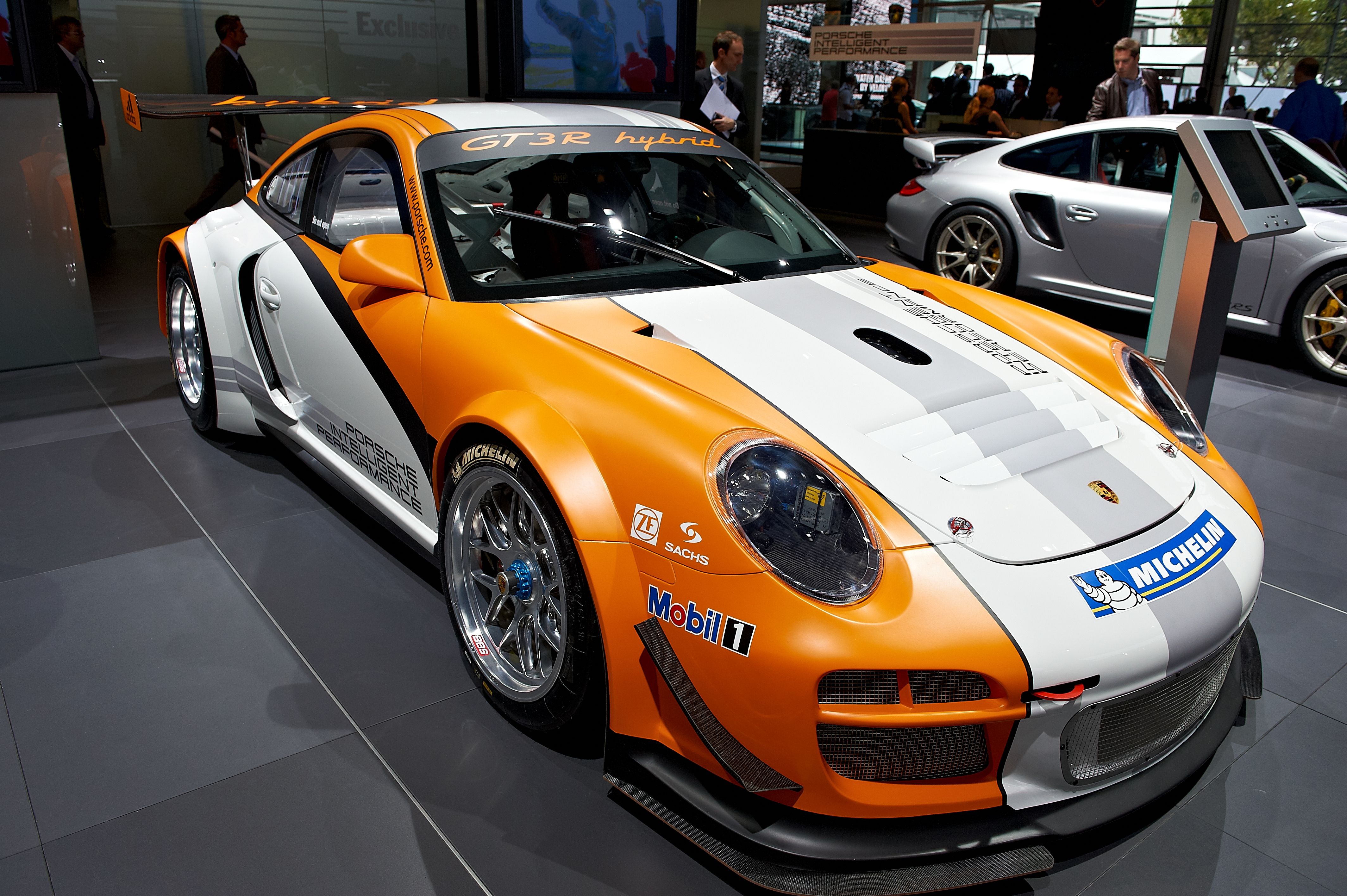 Porsche GT3R hybrid at Paris Motor Show 2010